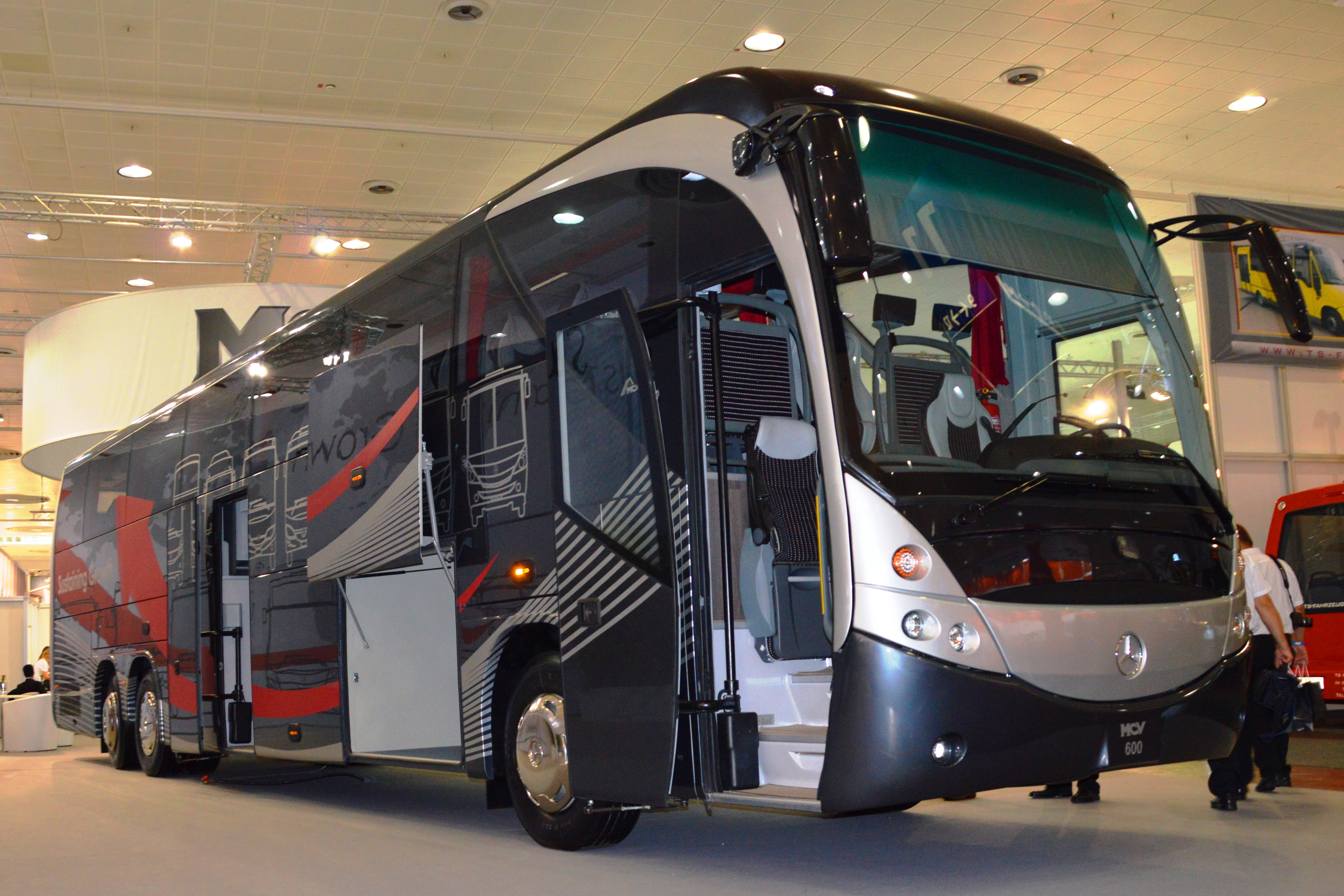 MCV 600 coach with 3 axles. Build in Egypt. With chassis Mercedes OC 500 RF 2542. Length: 14.3 m. Photo taken at exhibition IAA 2014 in Hanover, Germany.